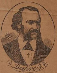 Portrait of minstrel show performer Charles H. Duprez, appearing on a handbill for Duprez & Benedict's Minstrels, for a show on June 3, 1881, at Ruscoe Hall in Lowville.